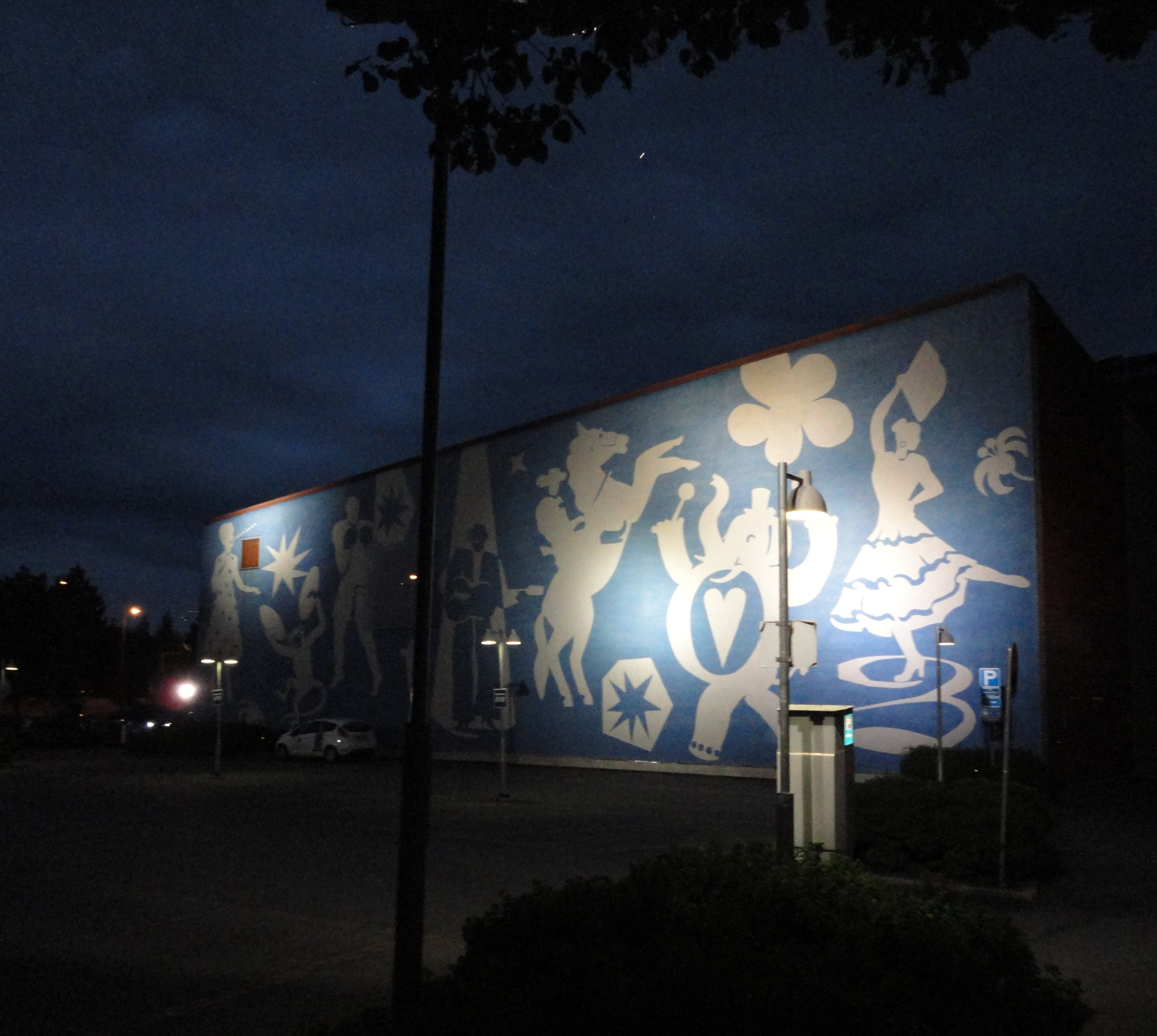 Verkatehdas, Hämeenlinna, Finland